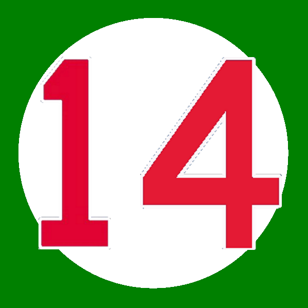 Red Sox retired numbers as hung on the right-field facade during the 2016 season in Fenway Park